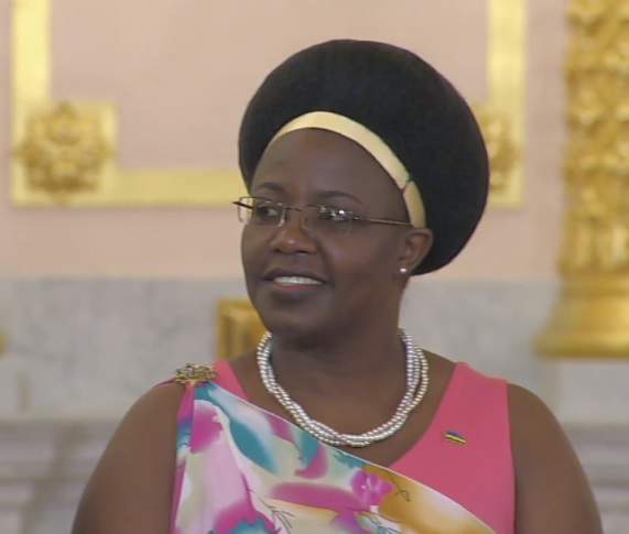 Jeanne d'Arc Mujawamariya, new ambassador of Republic of Rwanda in Russia, during the ceremony of presentation by foreign ambassadors of their letters of credence, Kremlin, January 16, 2014